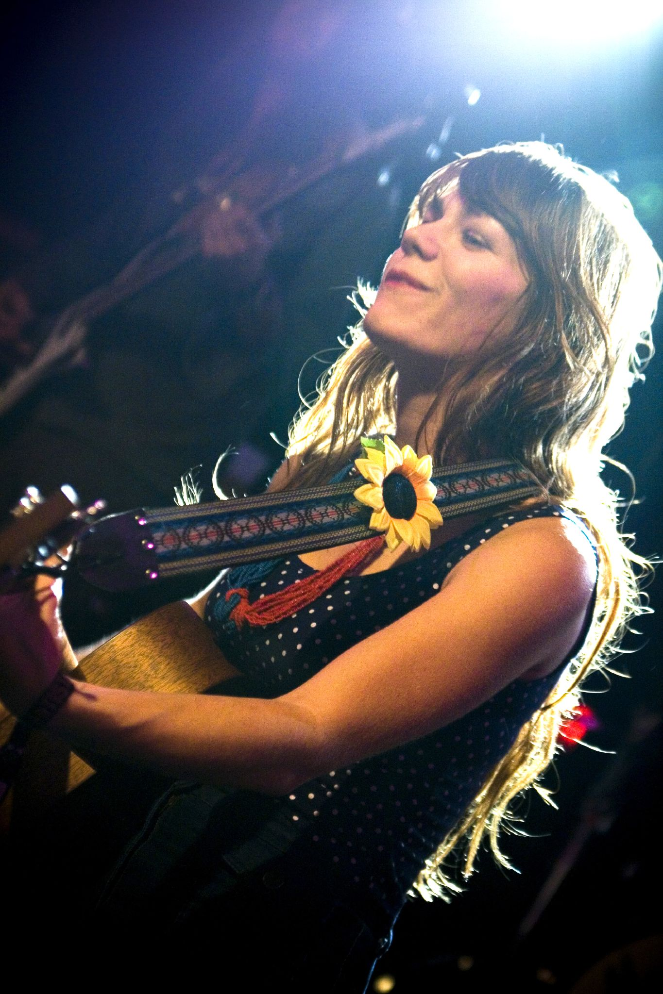 Jenny Lewis @ La Zona Rosa, Austin, TX, 9/28/08